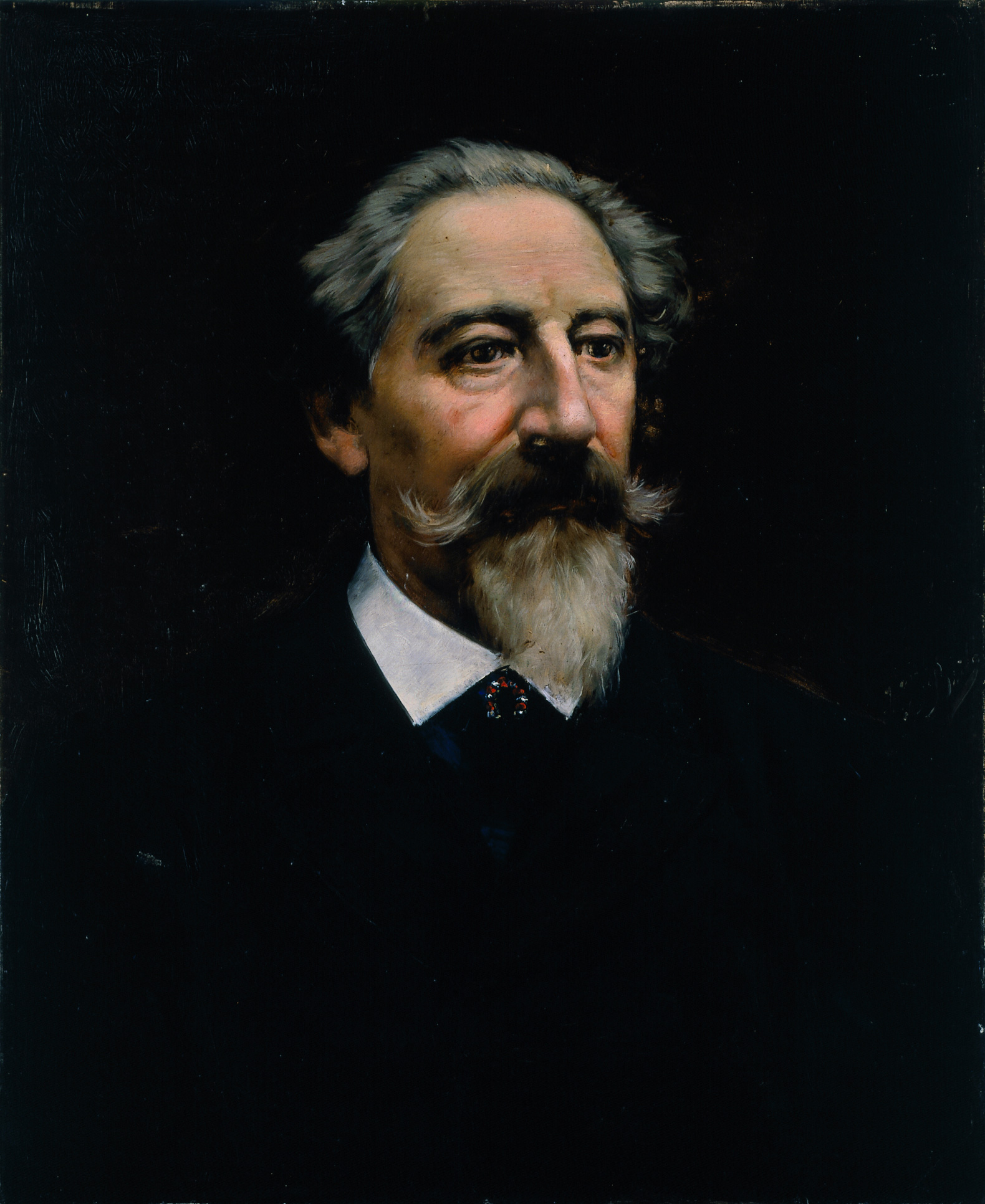 King Ferdinand II of Portugal (1816-1885)